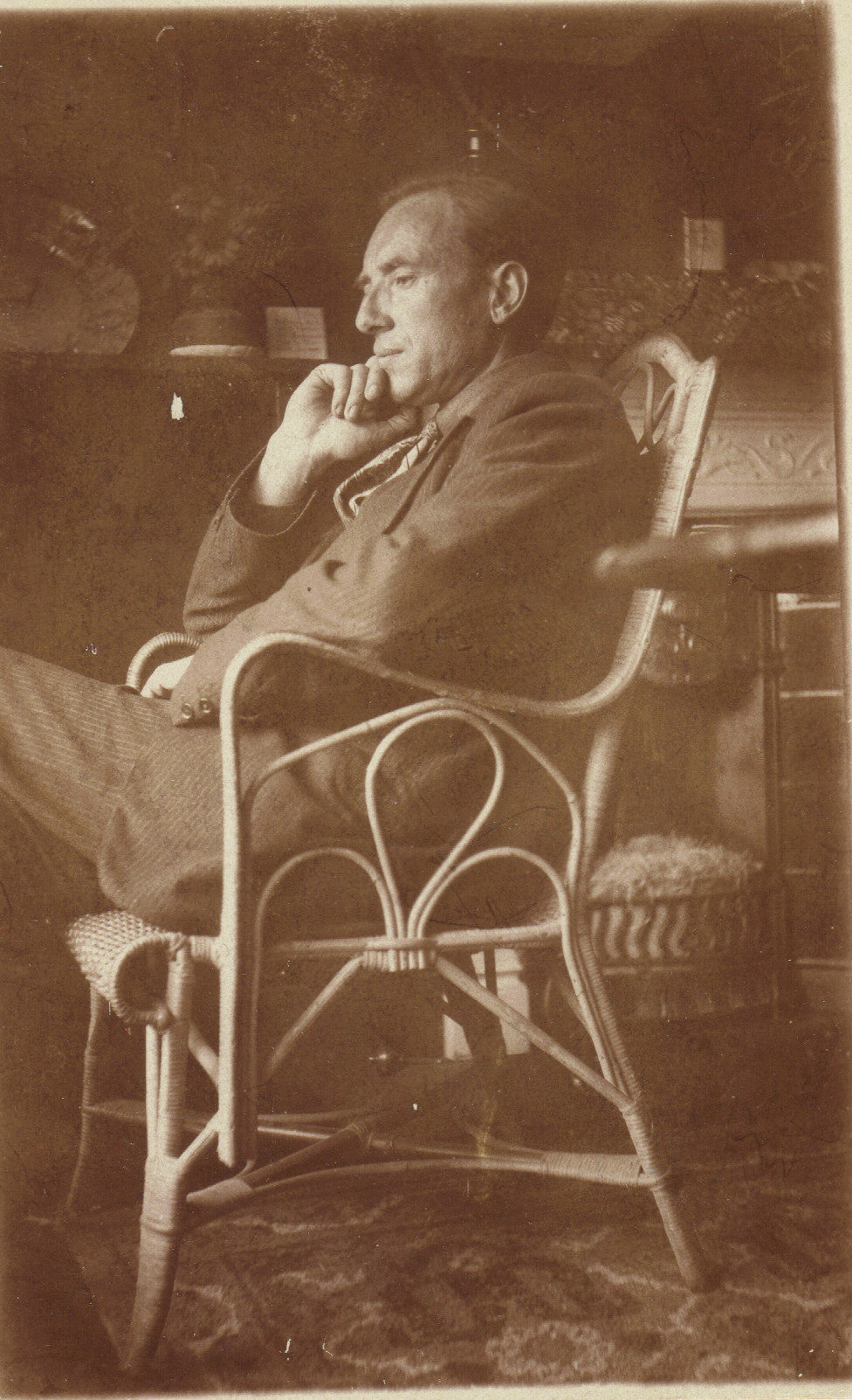 Photographic Portrait of Charles Kennedy Scott, in 1925.